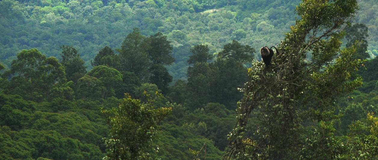 Lion-tailed macaque on canopy of rainforest tree in a coffee plantation. Stitched panorama of two photographs.